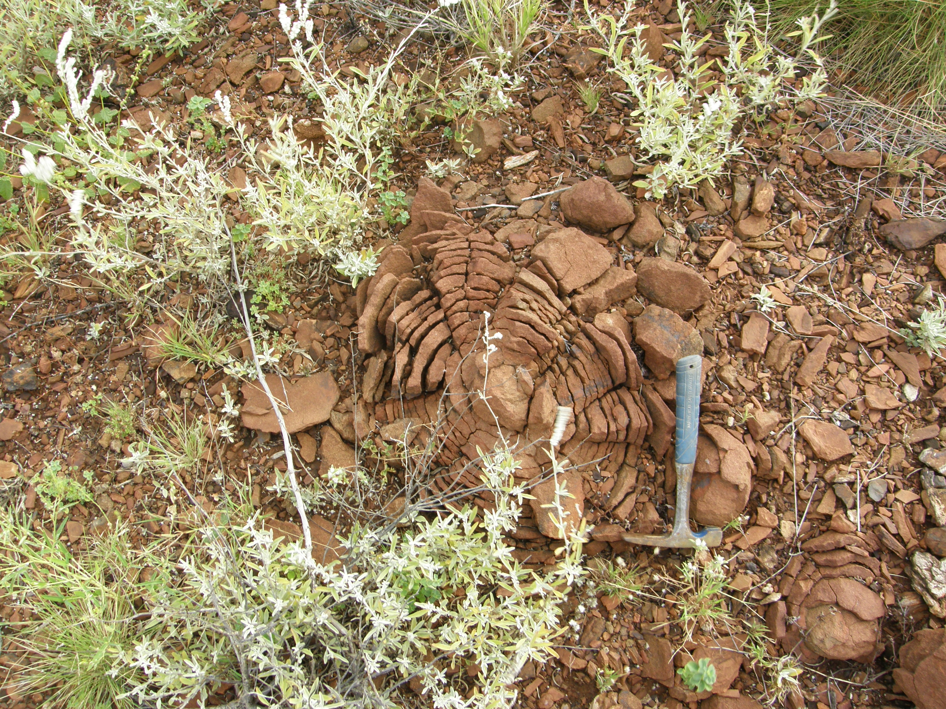 Weathering dolerite dyke, Maitland River magnetite prospect, Pilbara, Western Australia